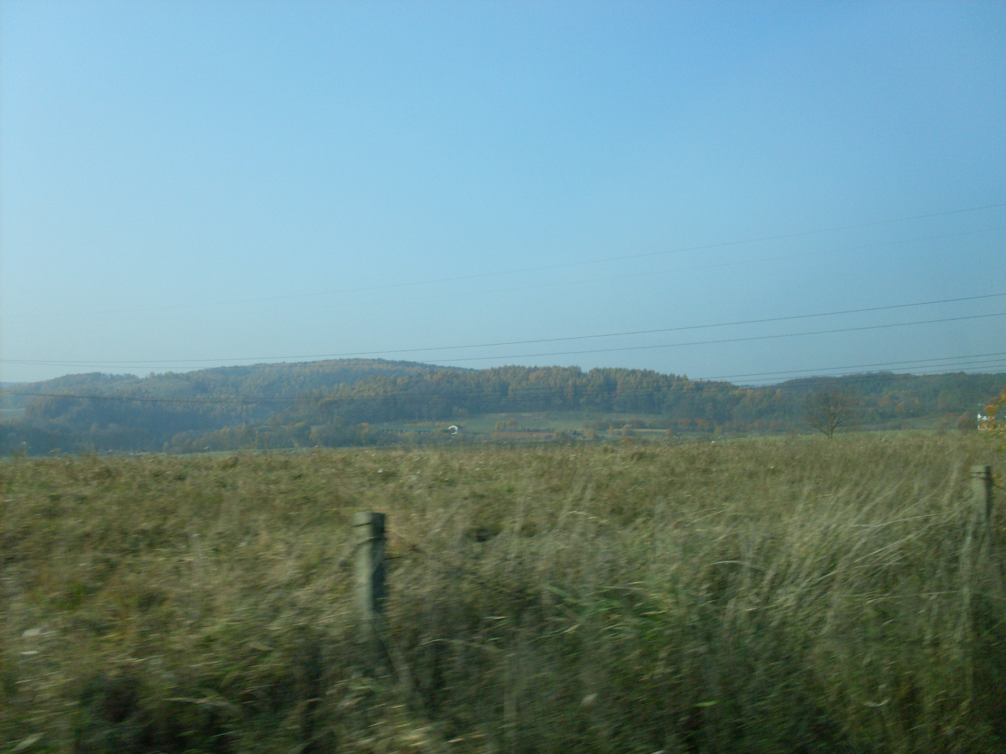 Kobylany.Chmielniki